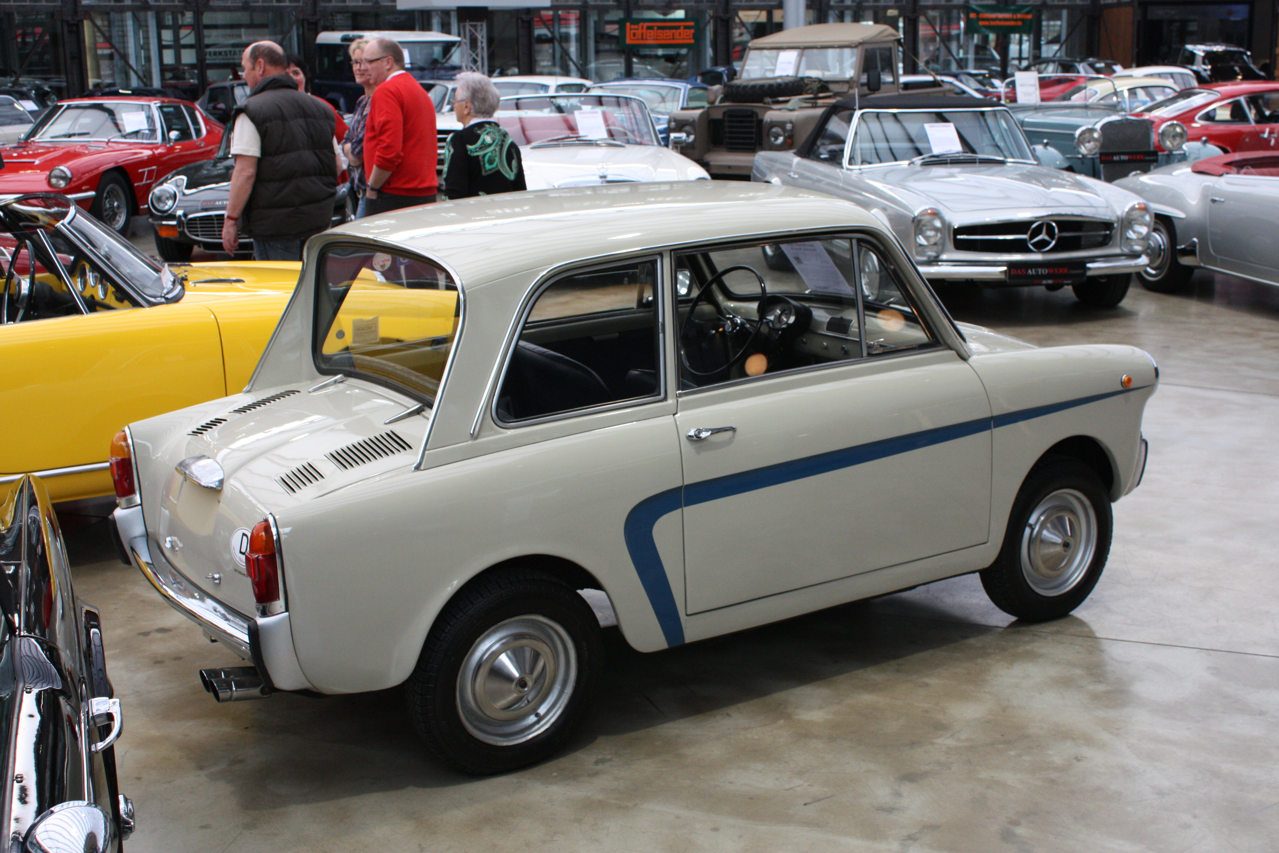 Autobianchi Bianchina Berlina, Mk.II, 1967, seen at CLASSIC REMISE, Duesseldorf, Germany